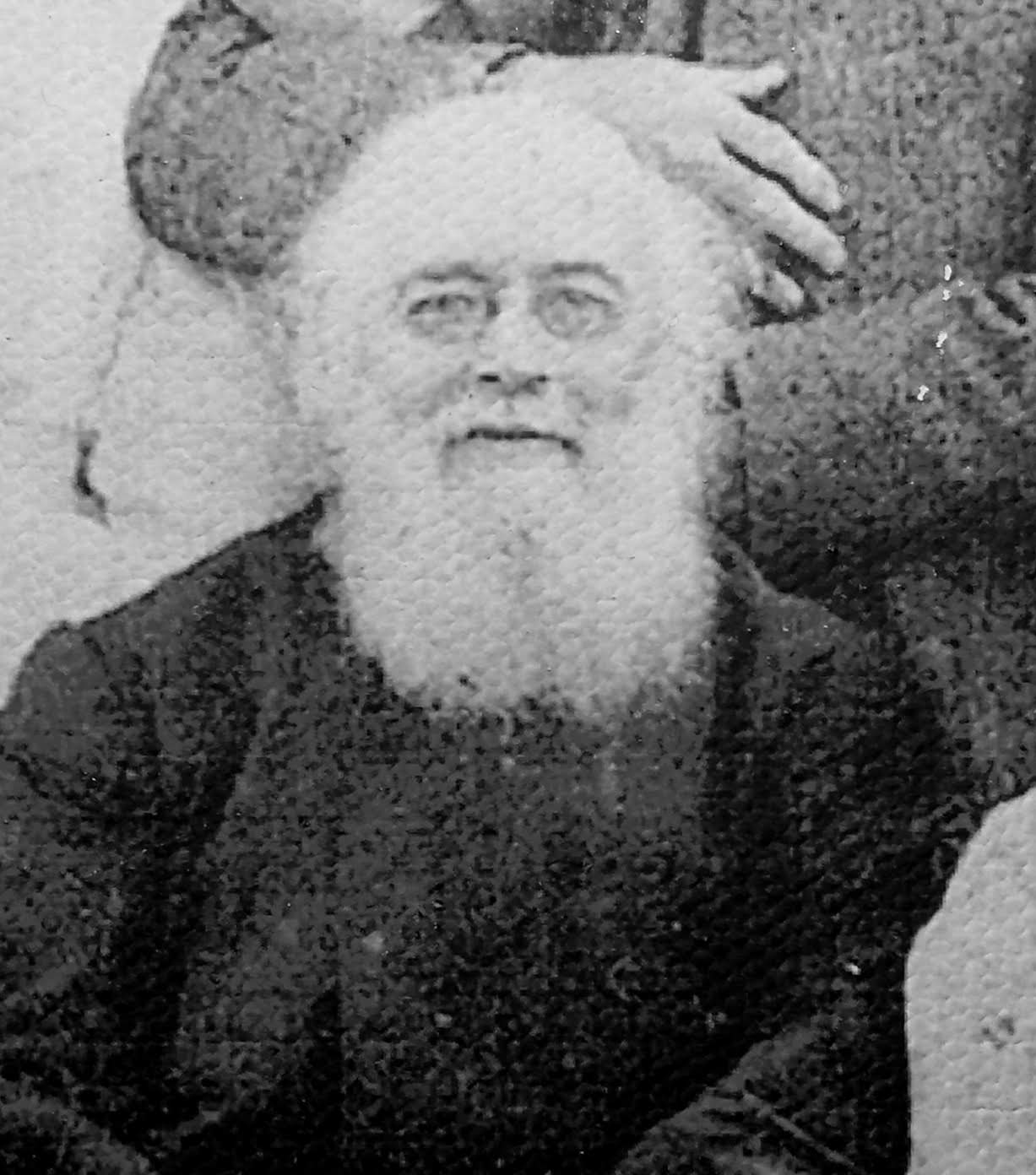 A portrait photo of Arthur Guyon Purchas from the chest up originally taken in 1895.